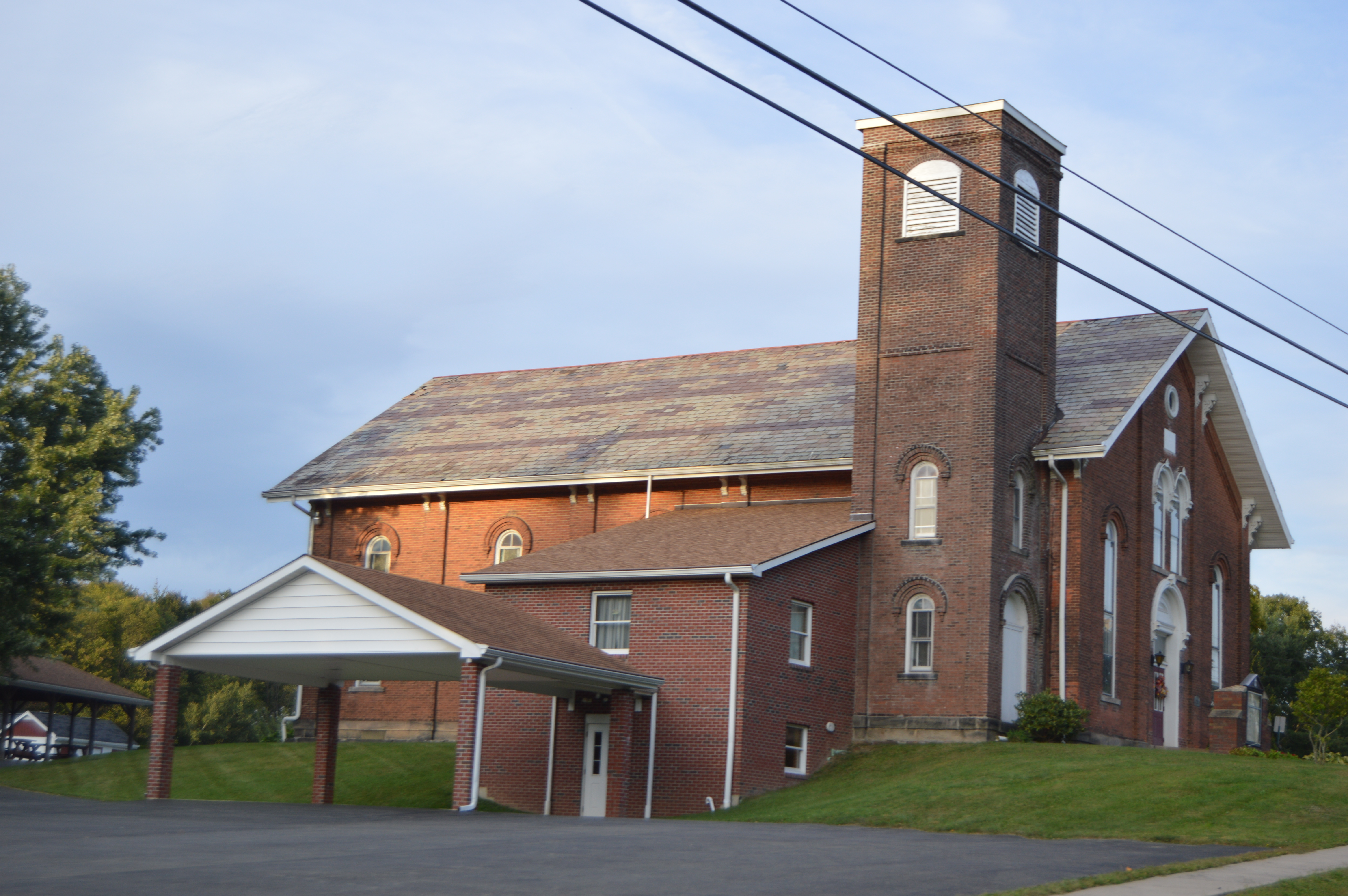 Western side and front of Jackson Center Presbyterian Church, located along U.S. Route 62 in central Jackson Center, Pennsylvania, United States.